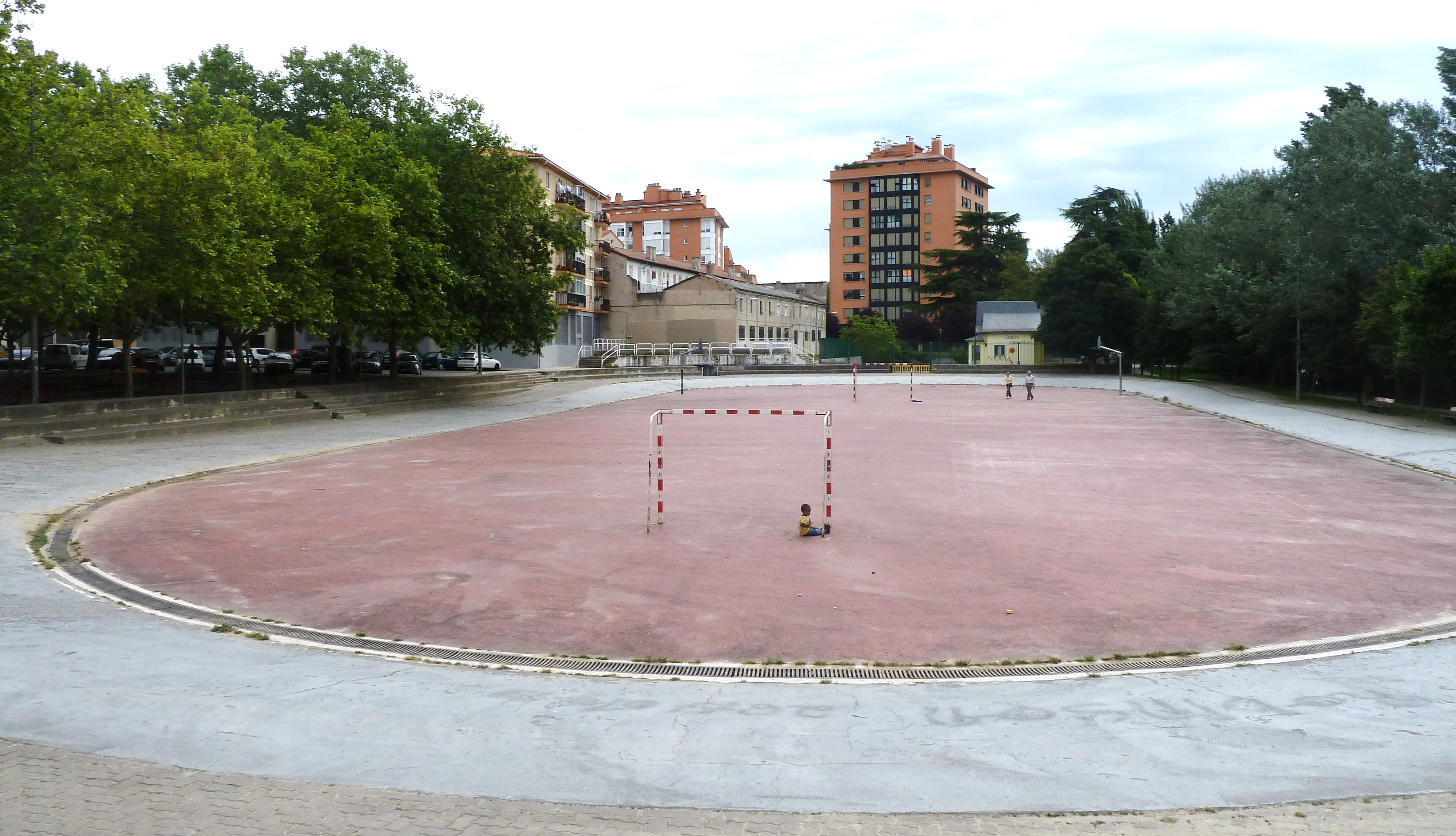 Outdoor facilities located in Doctor Salva Street, district of San Jorge/Sanduzelai (Pamplona/Iruña). Include skating rink with lighting and bleachers for 400 people, sports court for handball, five-a-side football ..., basketball court, and playground. They were built in 1977, its use is not regulated and can be used by any citizen who wants it.